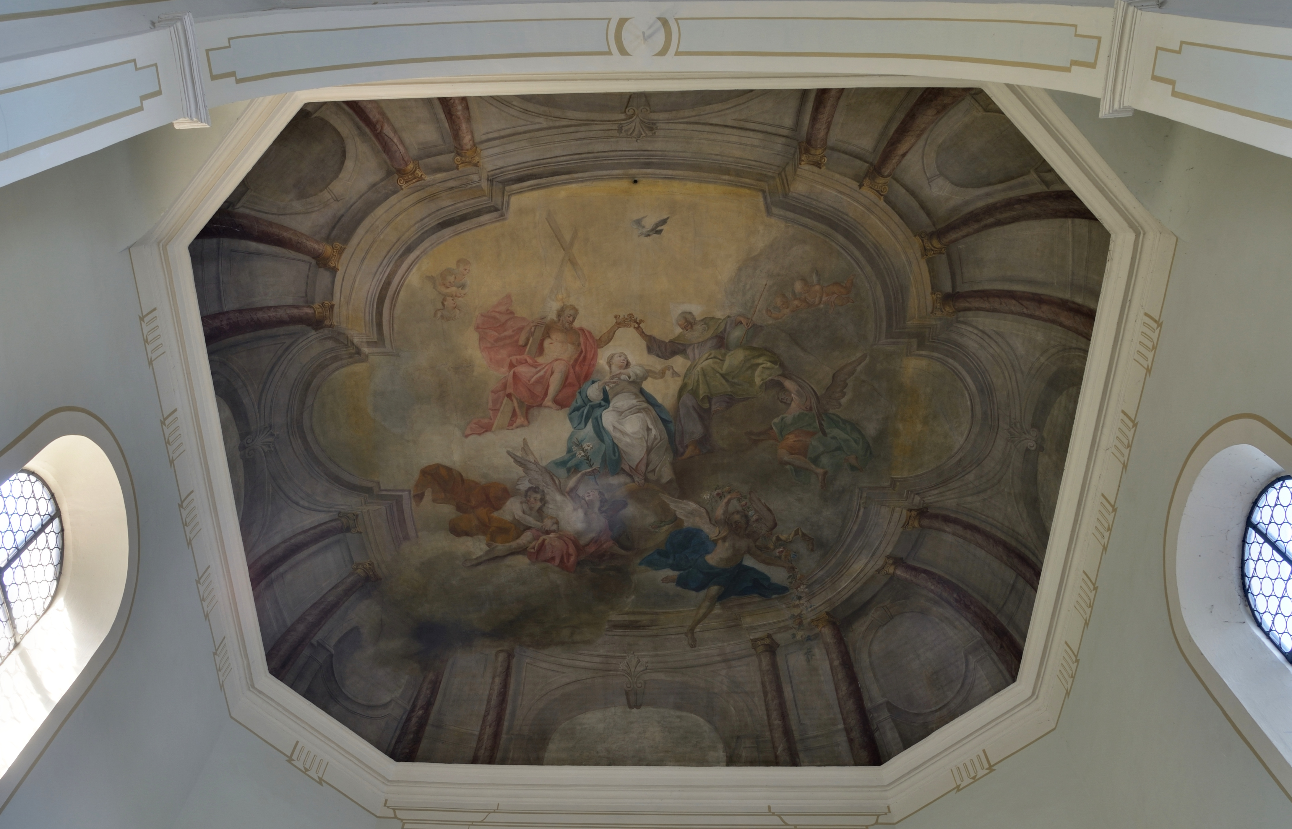 Rheinfelden: castle church Beuggen